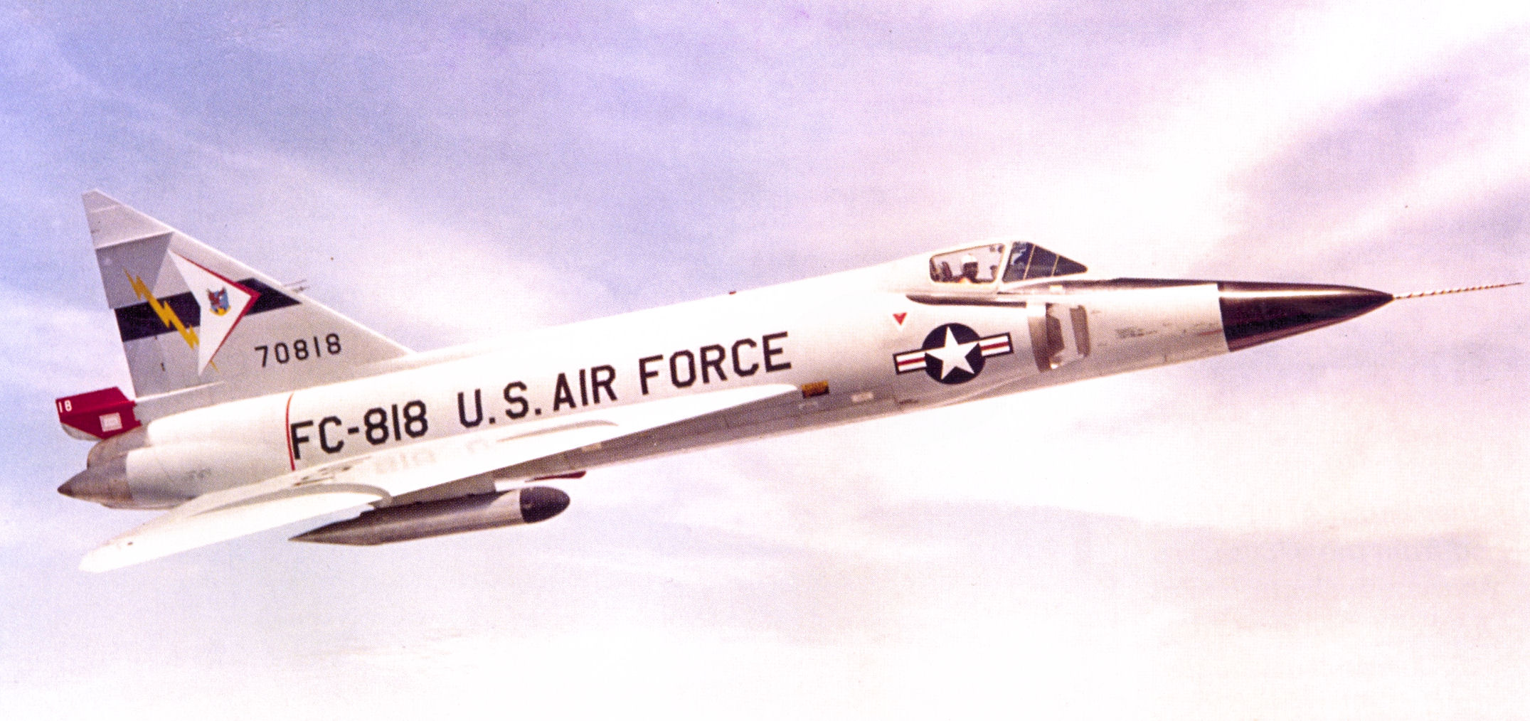 4756th Combat Crew Training Squadron Convair F-102A-90-CO Delta Dagger 57-818 4756th Air Defense Group, Tyndall AFB, Florida, November 1960